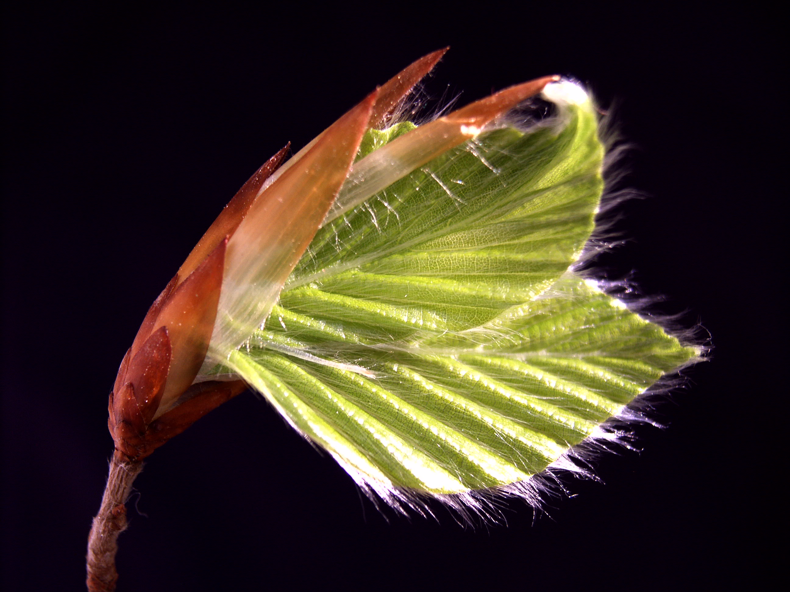 European Beech about over a year old.